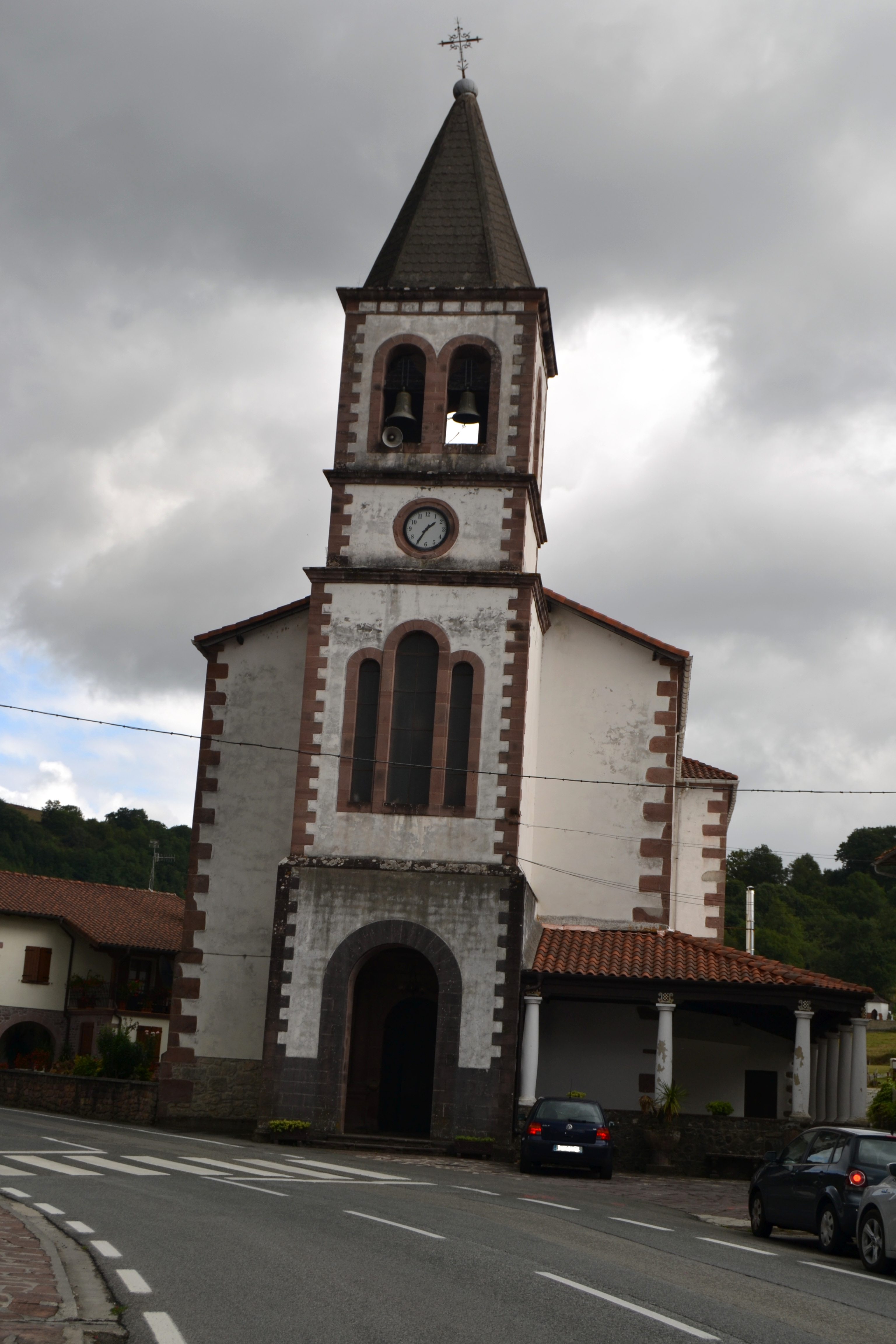 Assumption of Mary's church, Oronoz-Mugairi, Baztan. Navarre, Spain.